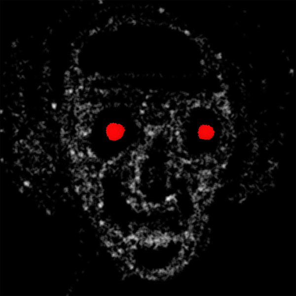 Dorlis (artistic interpretation)